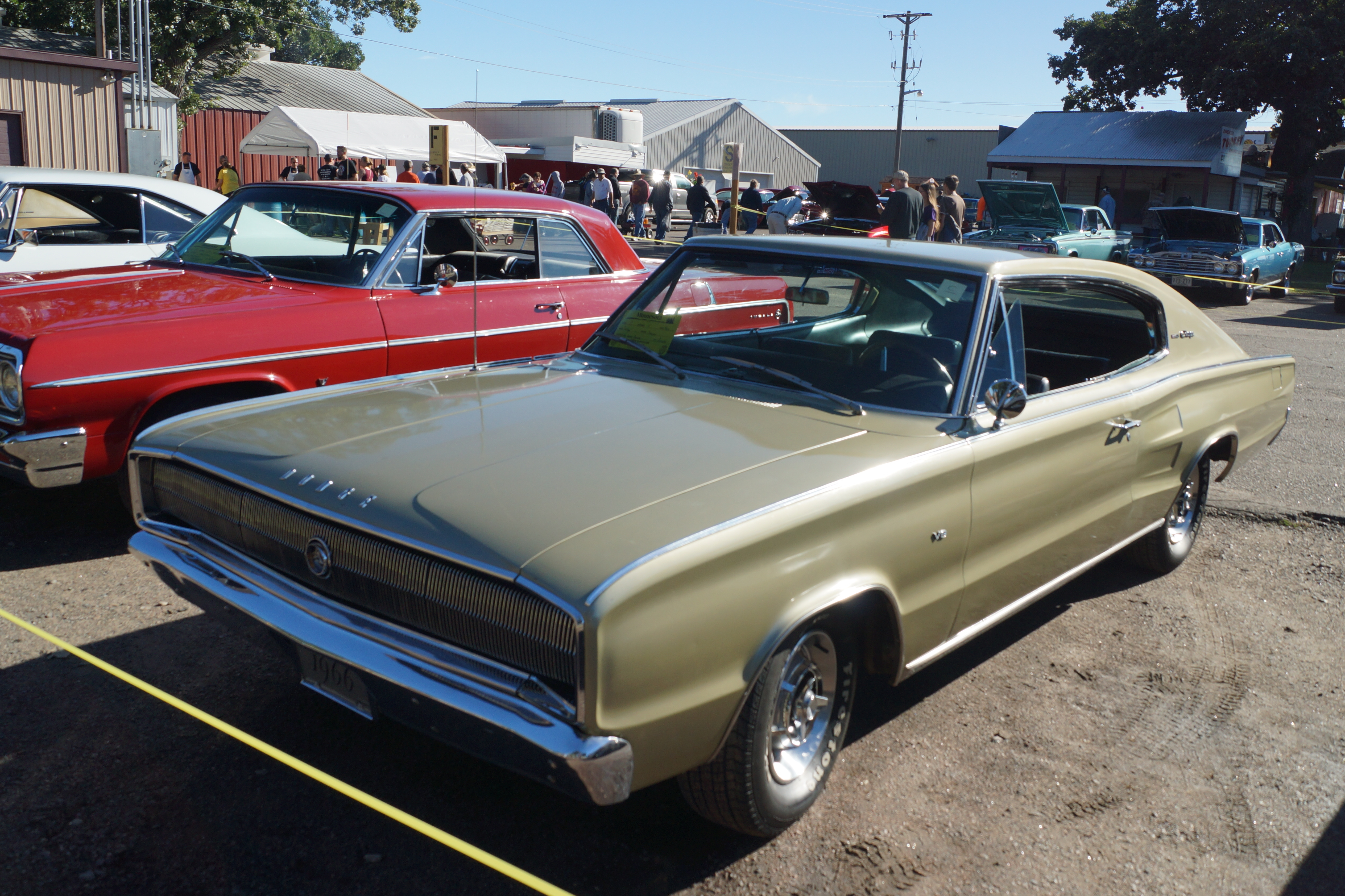 41st Annual Pantowner's Car Show & Swap Meet St.Cloud Antique Auto Club Benton County Fairgrounds St.Cloud, Minnesota August 2016 Click here for more car pictures at my Flickr site.